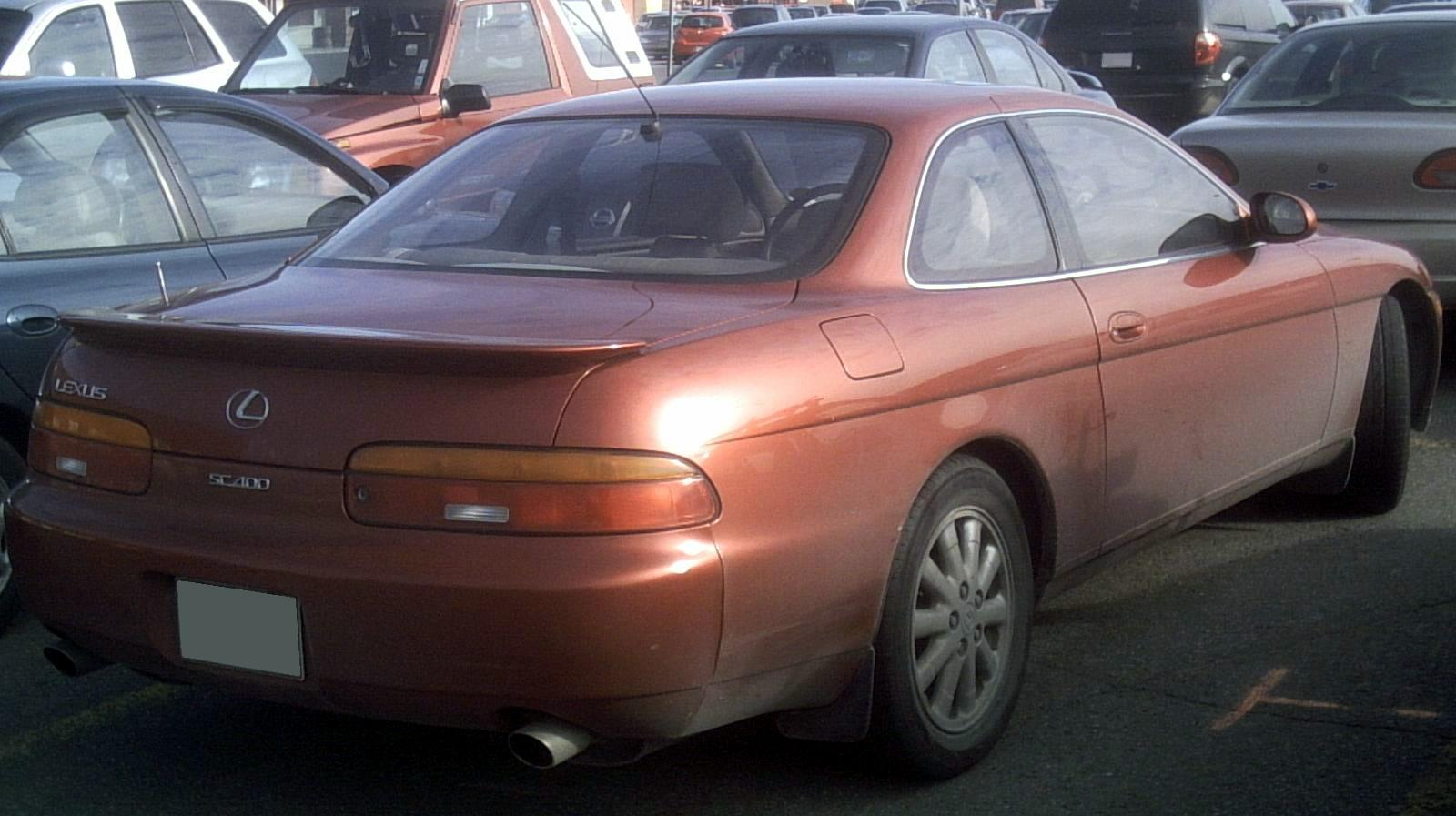 1992-2000 Lexus SC400 photographed in Montreal, Quebec, Canada.